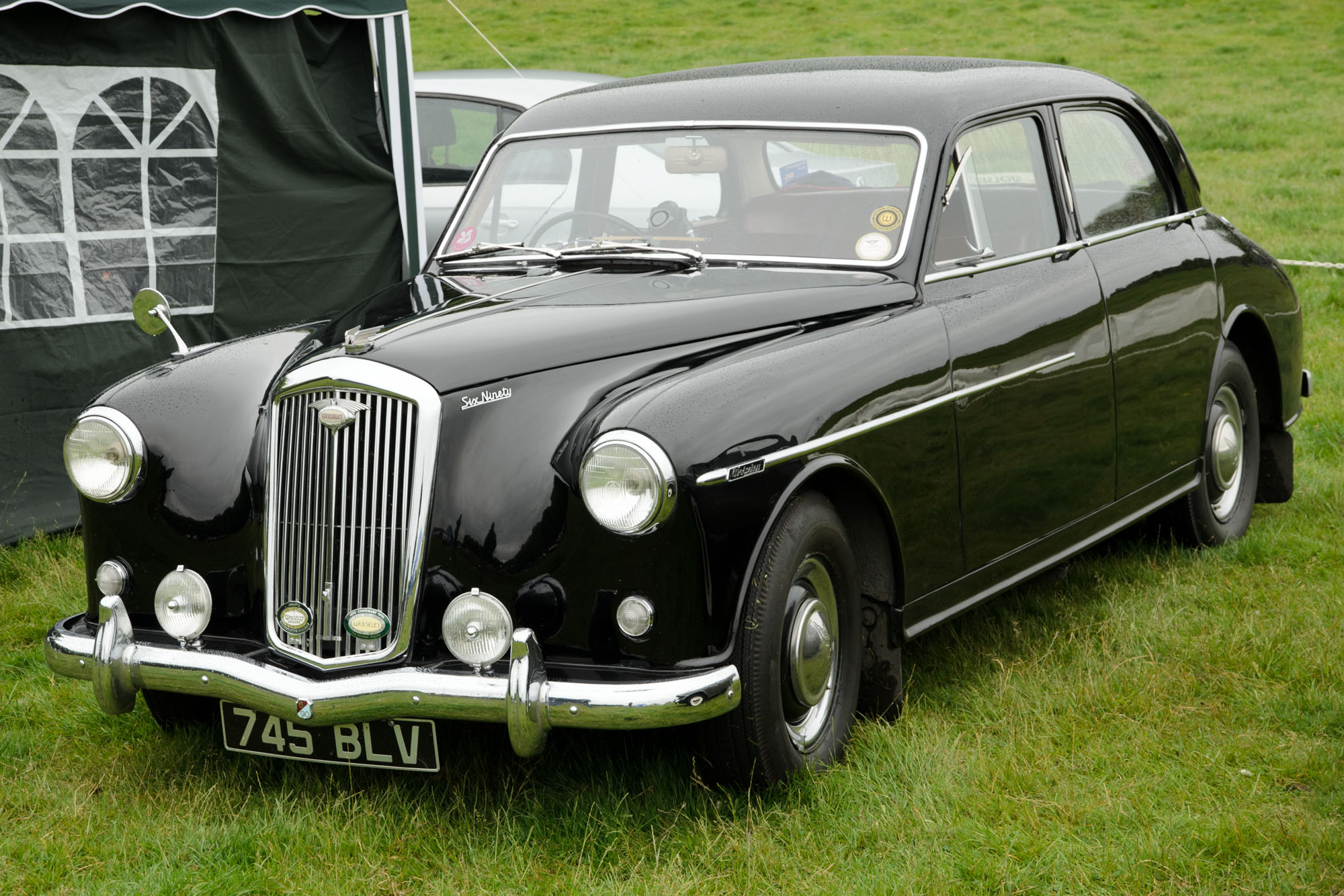 Hoghton Tower Classic Car Show 14/06/2015